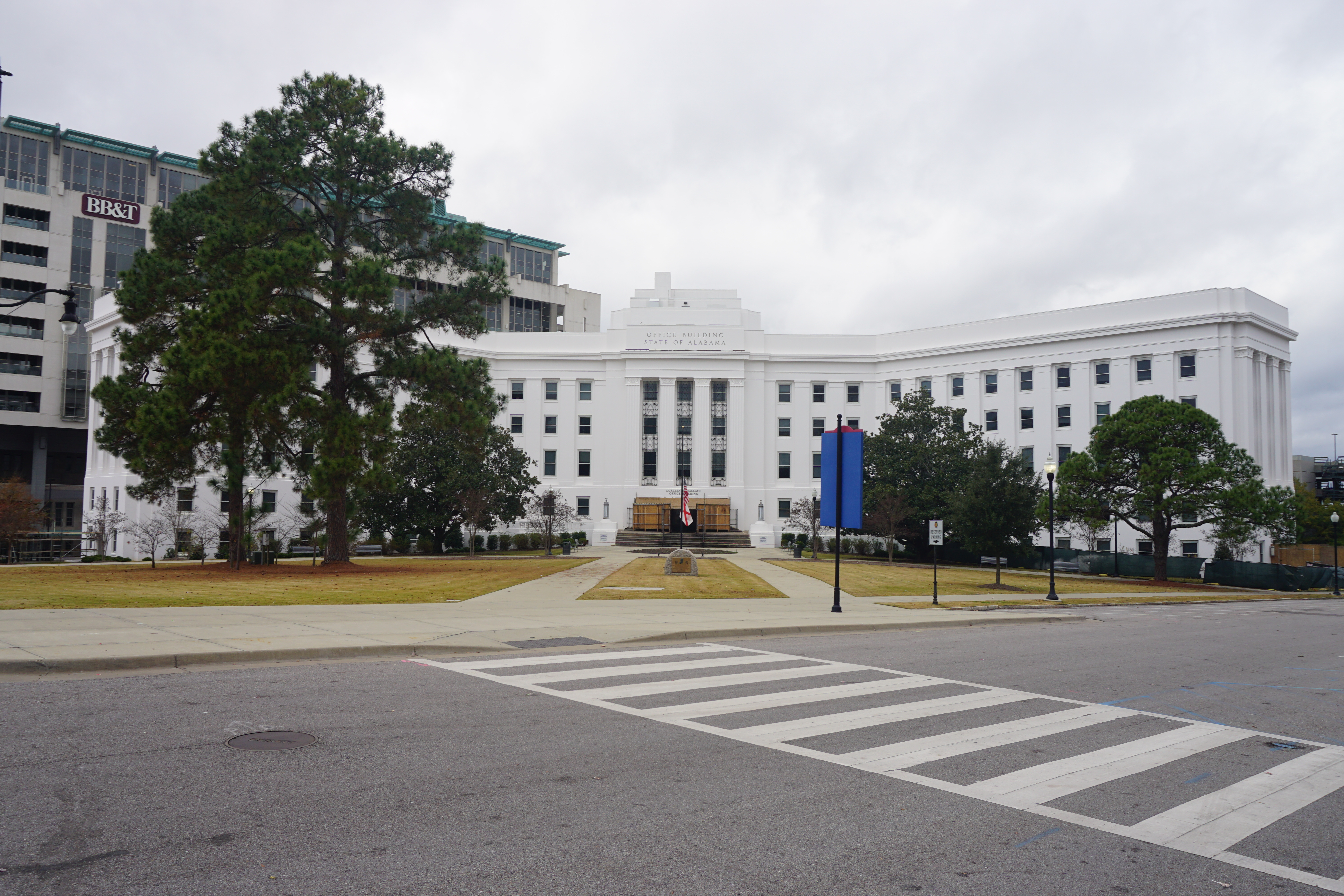 The Lurleen Wallace Office Building in Montgomery, Alabama (United States).